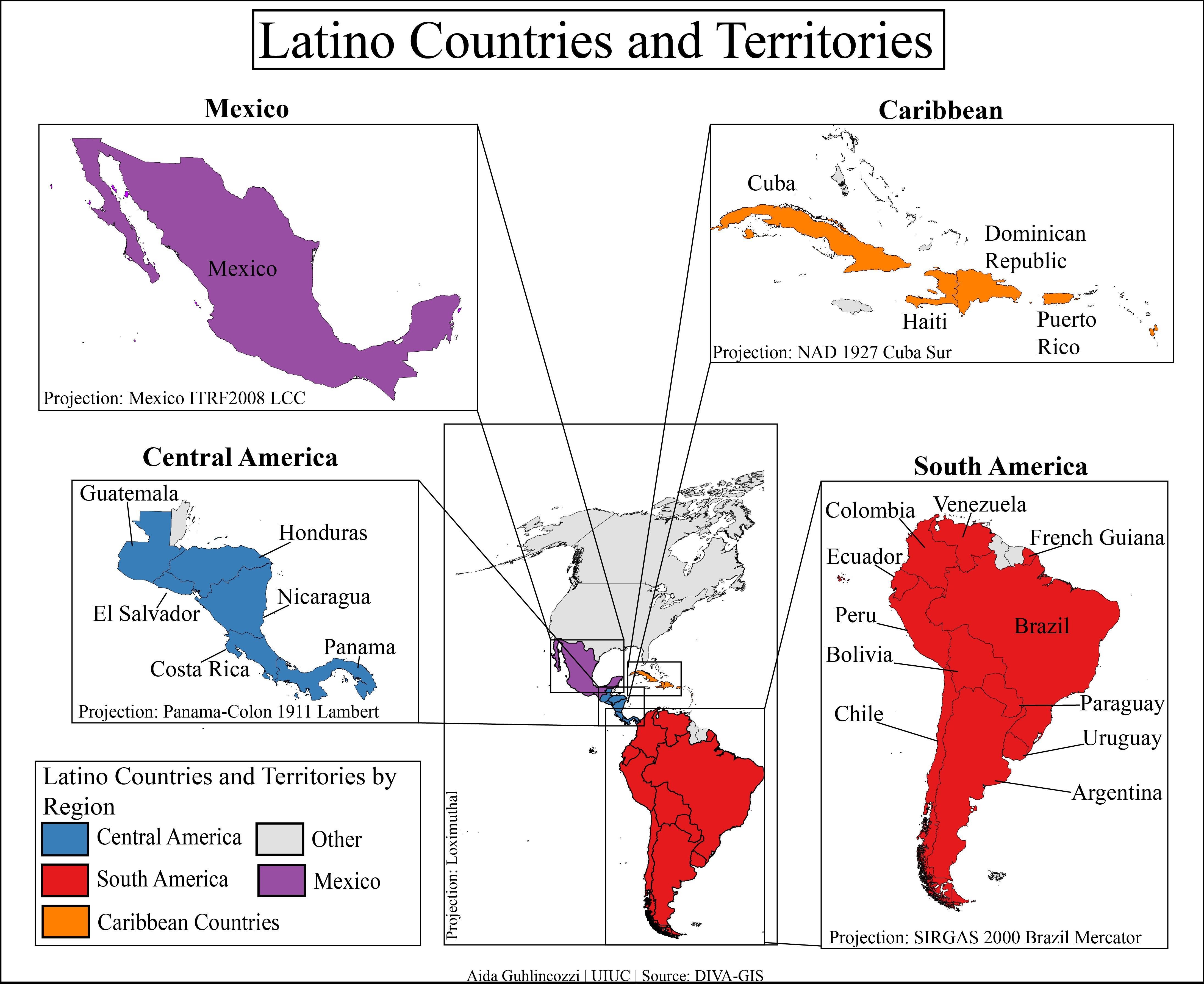 Edited map of Latino countries